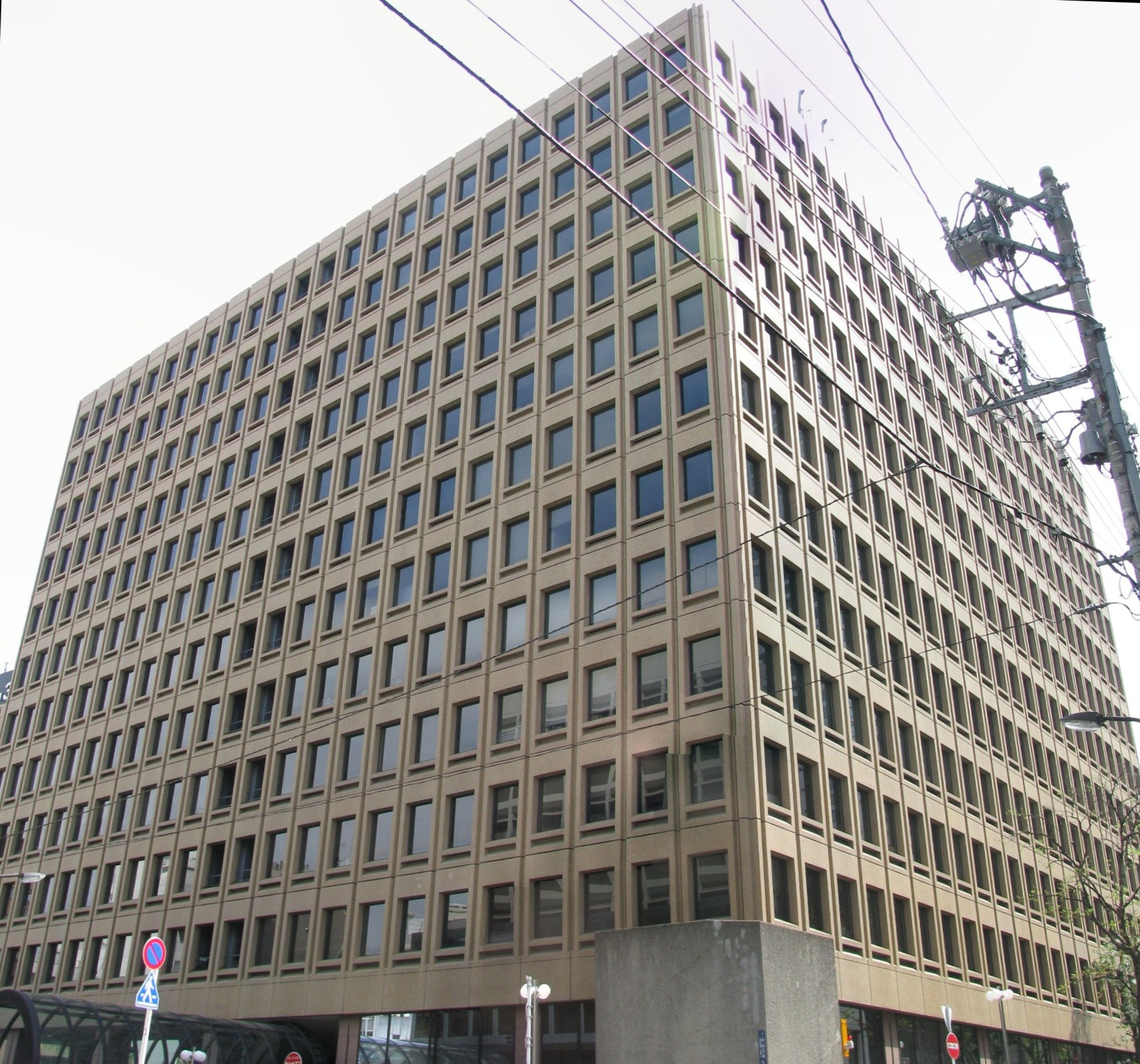 Mori Building 37. This place is Toranomon, Minato, Tokyo, Japan. It was the headquarters of Japan Air System